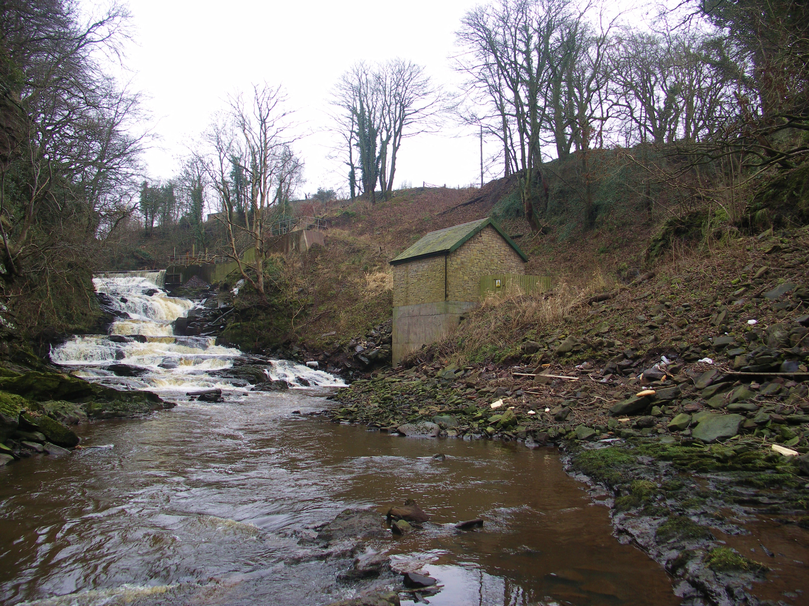 Jarviswood Power Station This small hydro-electric power station on the Mouse Water stands on the site of a former grain mill.